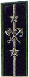 Insignia officials of the Ministry of Railways of the Russian Empire. Rank XII